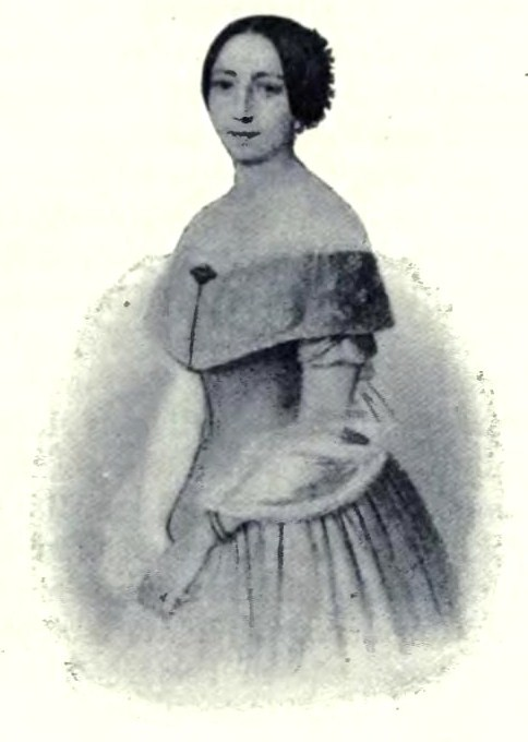 Danish ballet dancer Caroline Fjeldsted. After a drawing by Edvard Lehmann. Image from Nils Personne: Svenska Teatern VIII (1927).